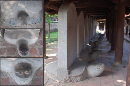 Collage of turtle steles at Văn Miếu (文廟), Hanoi's Temple of Literature, Vietnam (VN-HN).